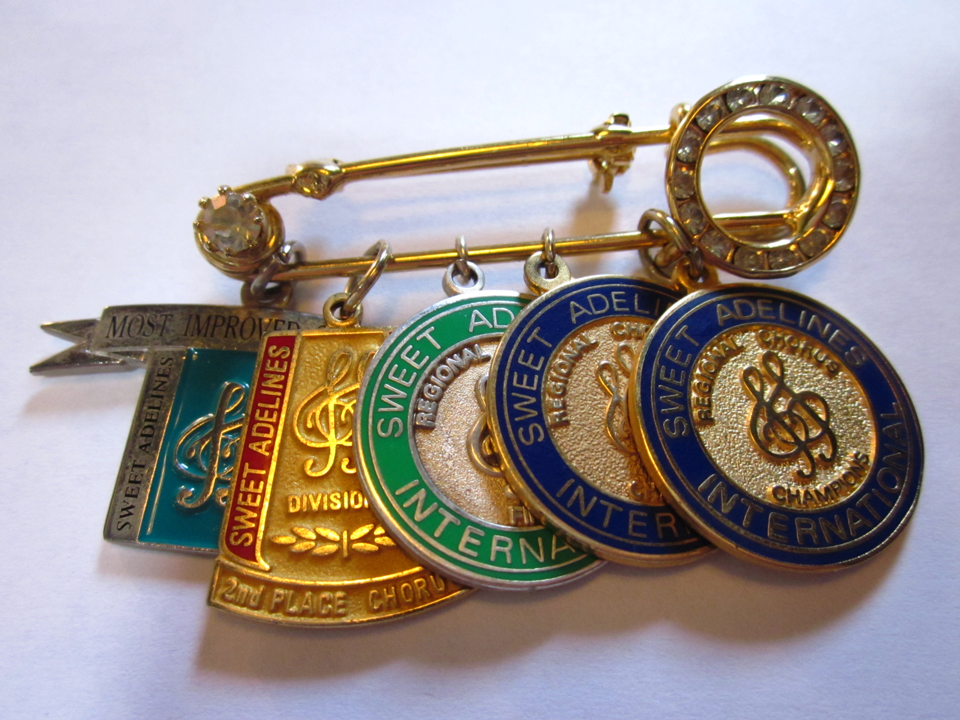 A collection of medals awarded at regional competitions by "Sweet Adelines International". From left to right: "most improved" chorus, 2nd place "AA division" chorus (red), 5th place chorus (green), and two "champion" chorus medals (blue).